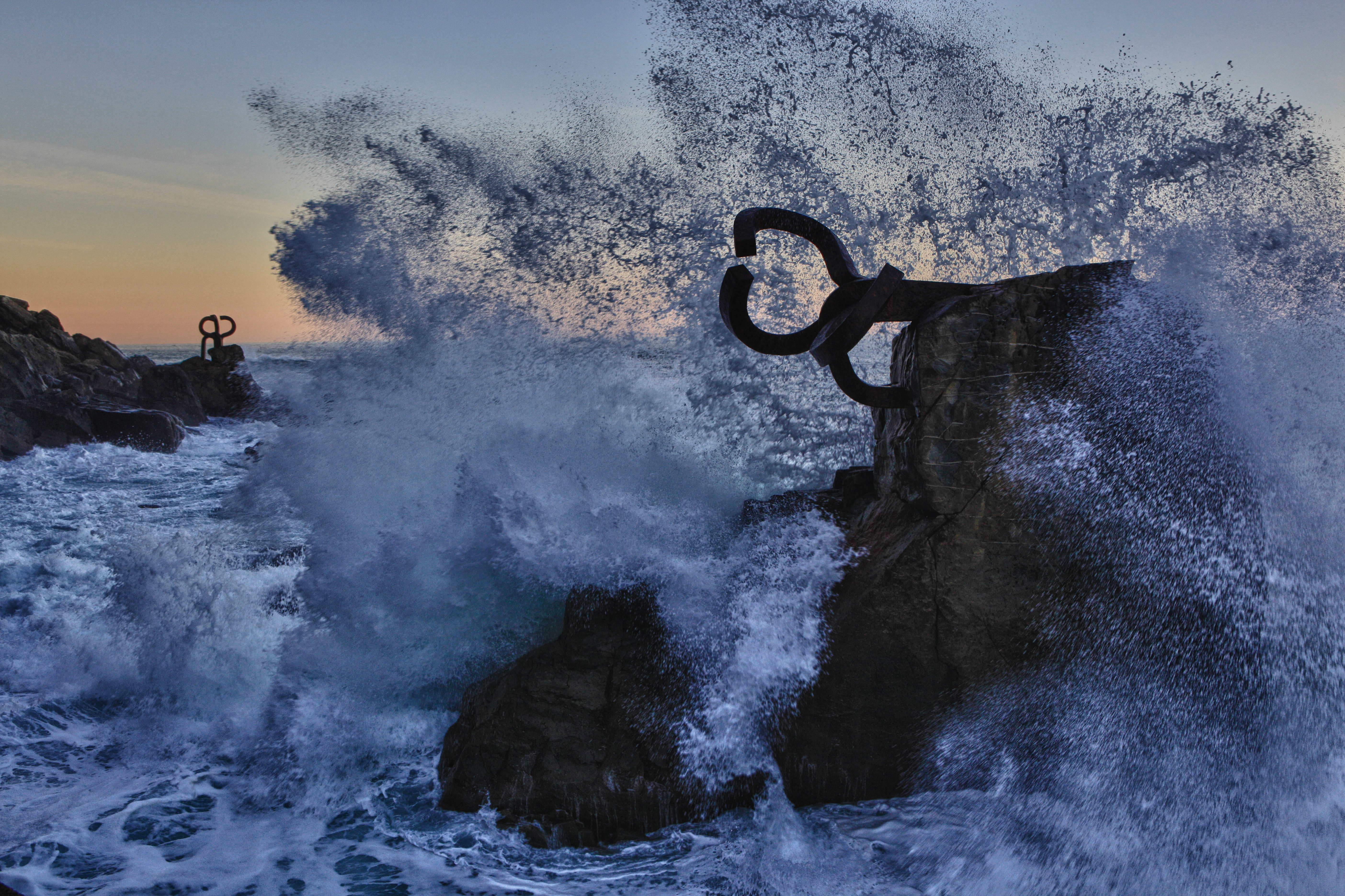 This is one picture of two from a monument/sculpture in San Sebastian called "El Peine De Los Vientos".